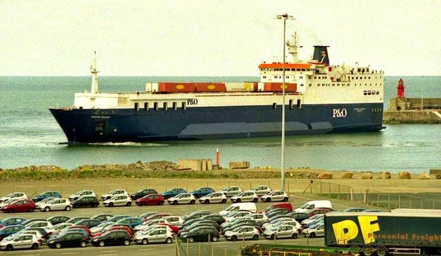 The "European Diplomat" at Rosslare The P&O ferry “European Diplomat” arriving at Rosslare from Cherbourg. This was a service which ran mainly for freight but carried a small number of passengers and their vehicles.